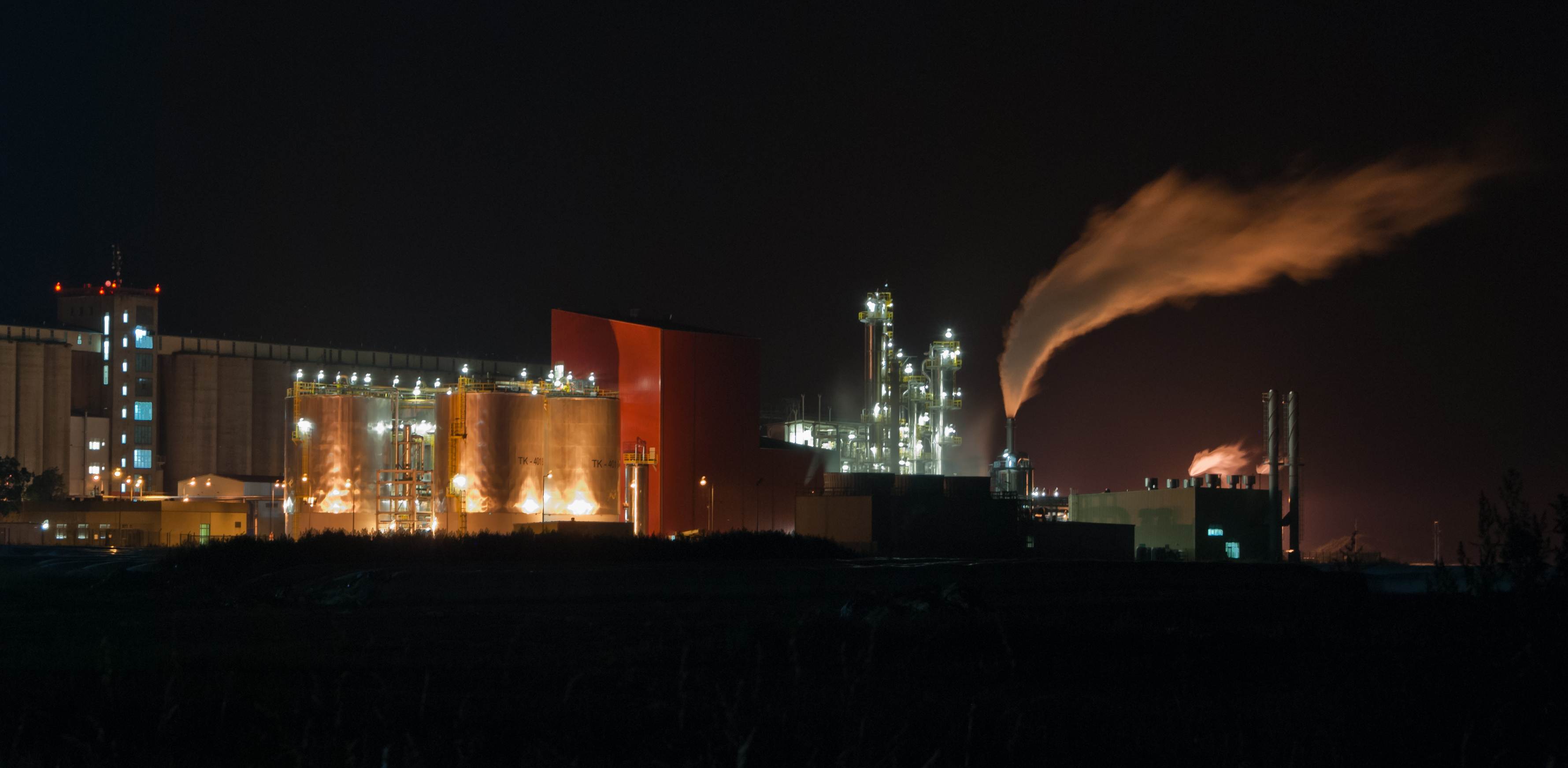 Ethanol production plant "Bioagra" in Goświnowice